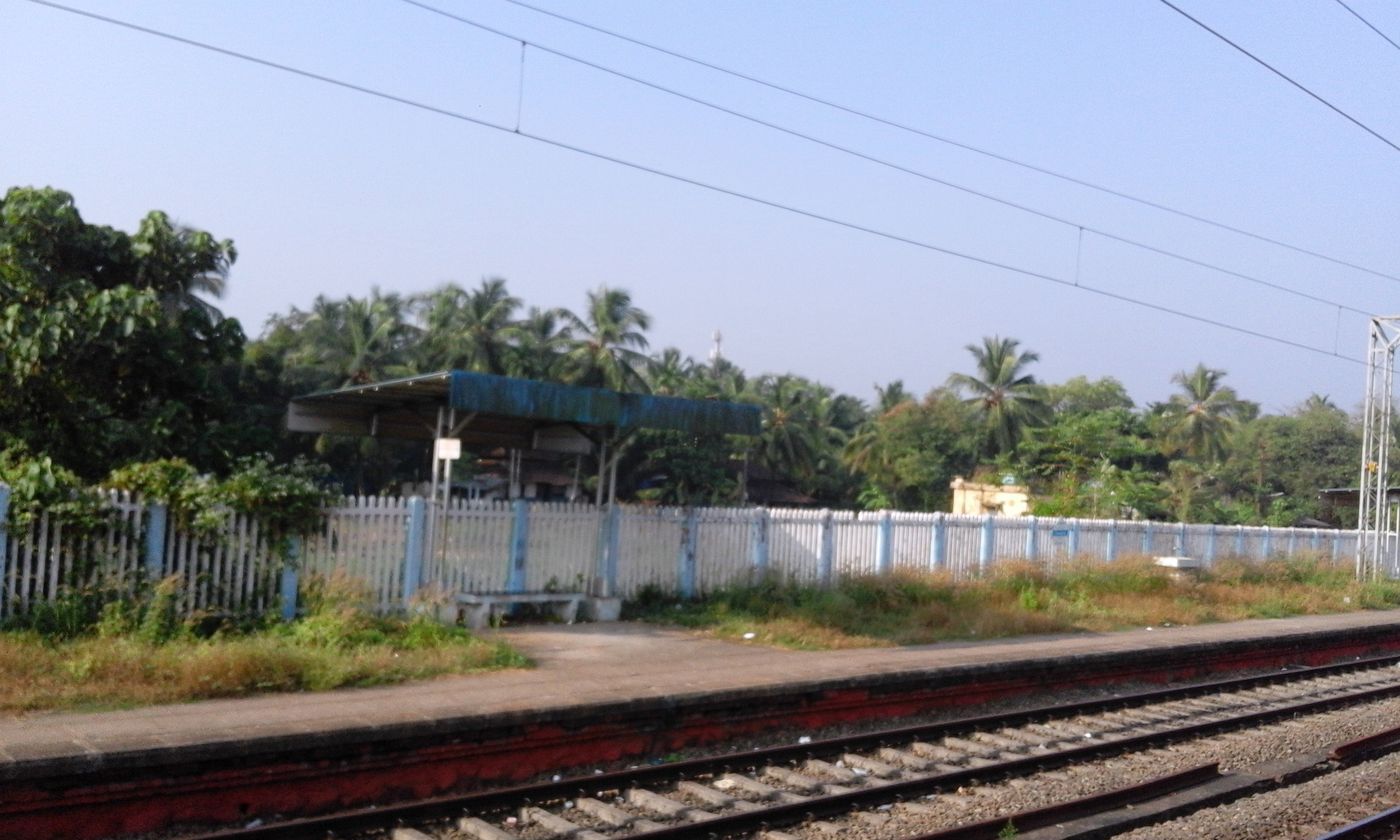 Kuttippuram, Kerala, India.